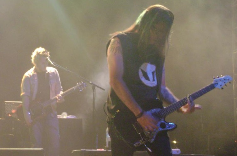 Kevin "Noodles" Wasserman Live @ Charlotte, NC 20-09-2008